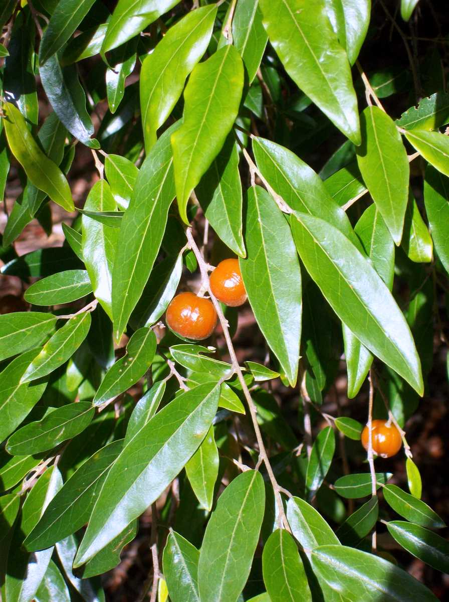 Petalostigma triloculare, Coffs Harbour Botanic Gardens